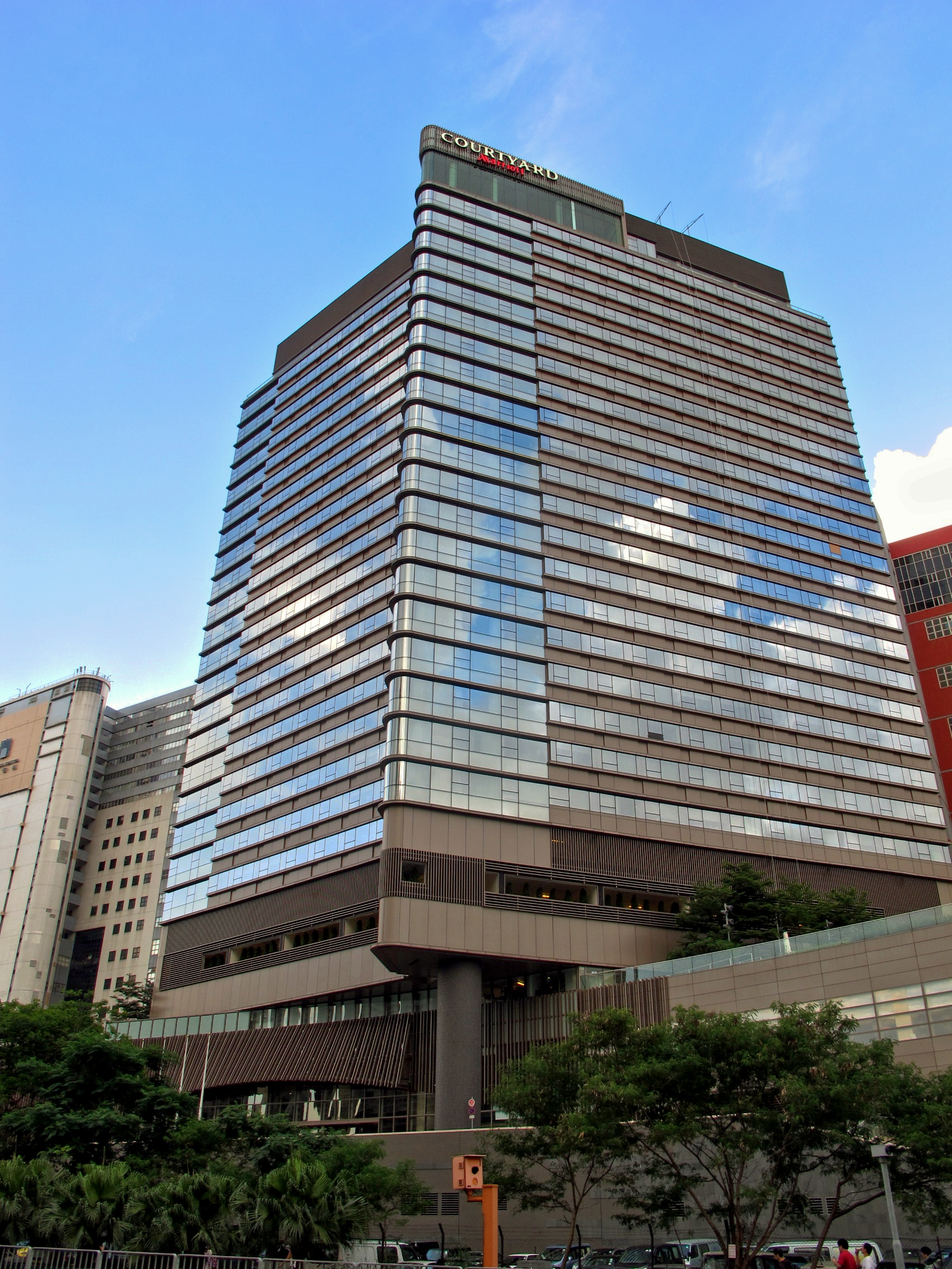 Courtyard by Marriott Hong Kong Sha Tin